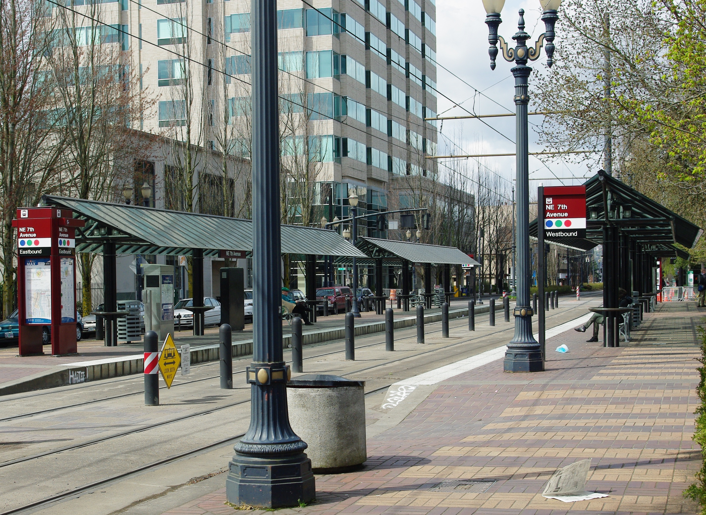 NE 7th Avenue MAX station in Portland, Oregon.